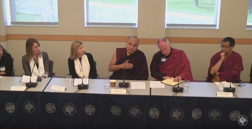 USIP Hosts His Holiness the 17th Gyalwang Karmapa of Tibet